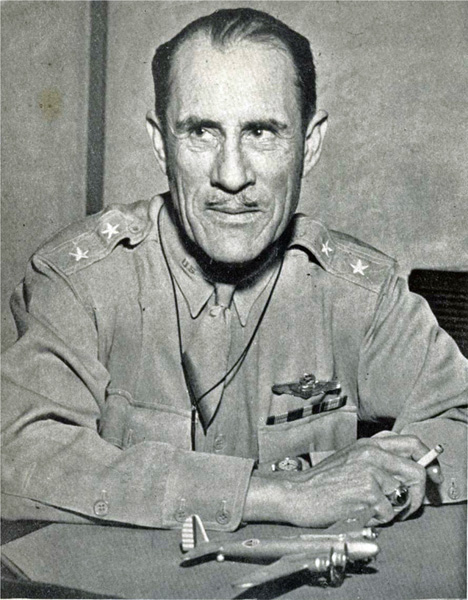 Major General Clarence Leonard Tinker (1887–1942) was an airman who lost his life during World War II while on a combat mission during the Japanese attack on Midway Island in the Pacific, June 7, 1942. Tinker Air Force Base in Oklahoma City, Oklahoma is named in his honor. Tinker was an enrolled member of the Osage Nation and the highest ranking native-American officer in the U. S. Army.